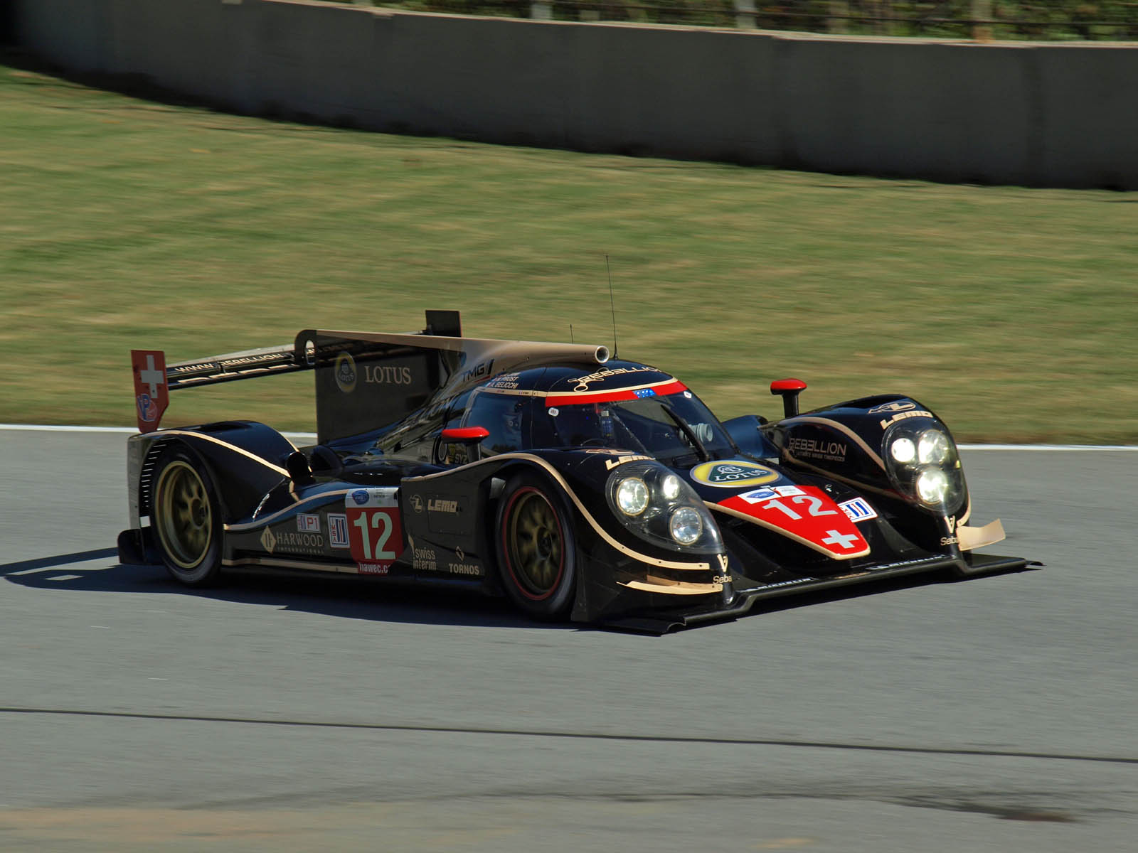 Neel Jani in the Rebellion Racing Lola B12/60-Toyota during qualifying for the 2012 Petit Le Mans